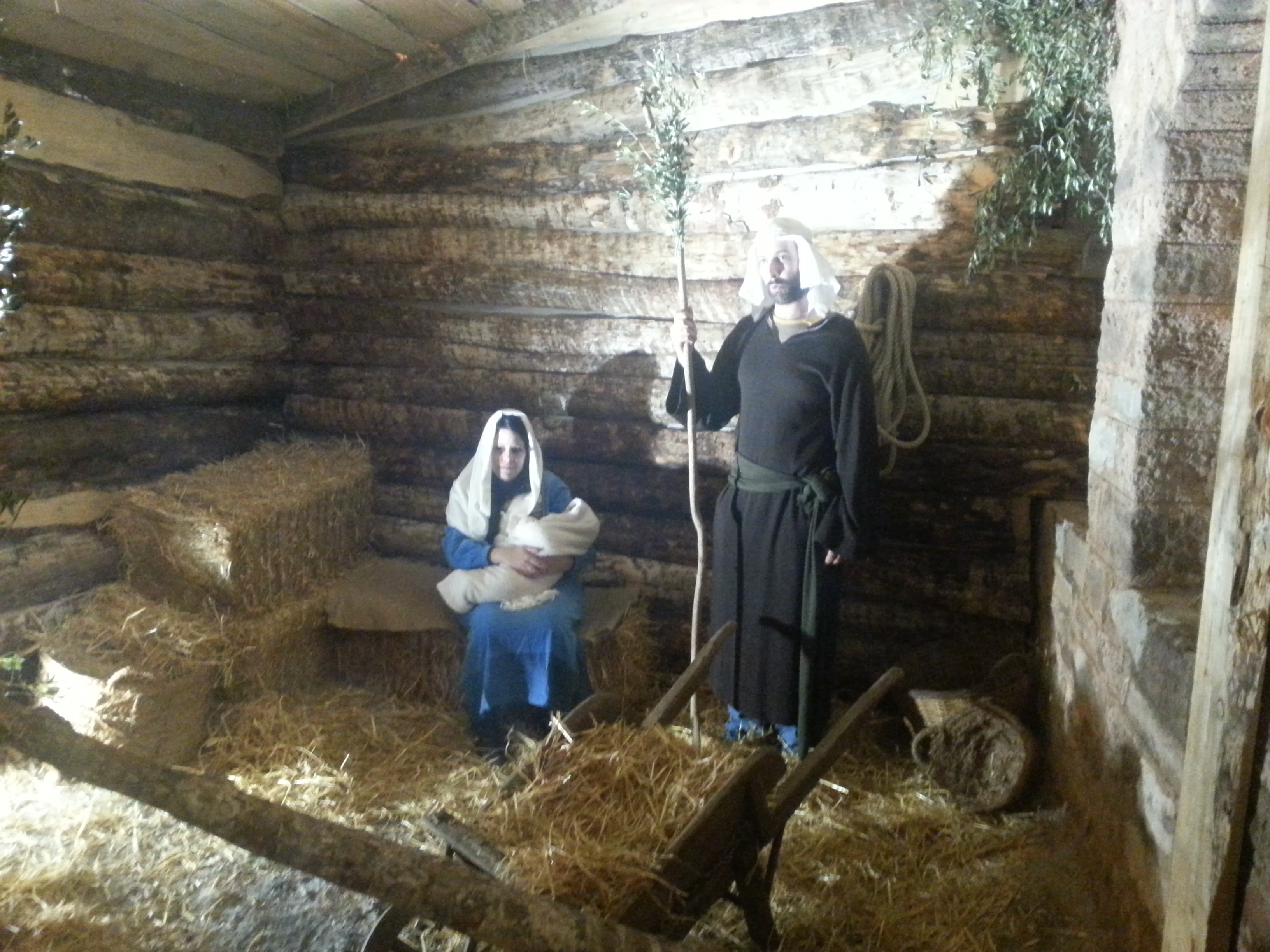 st.joseph, virgin and son. Living nativity scene at St.Feliu del raco.